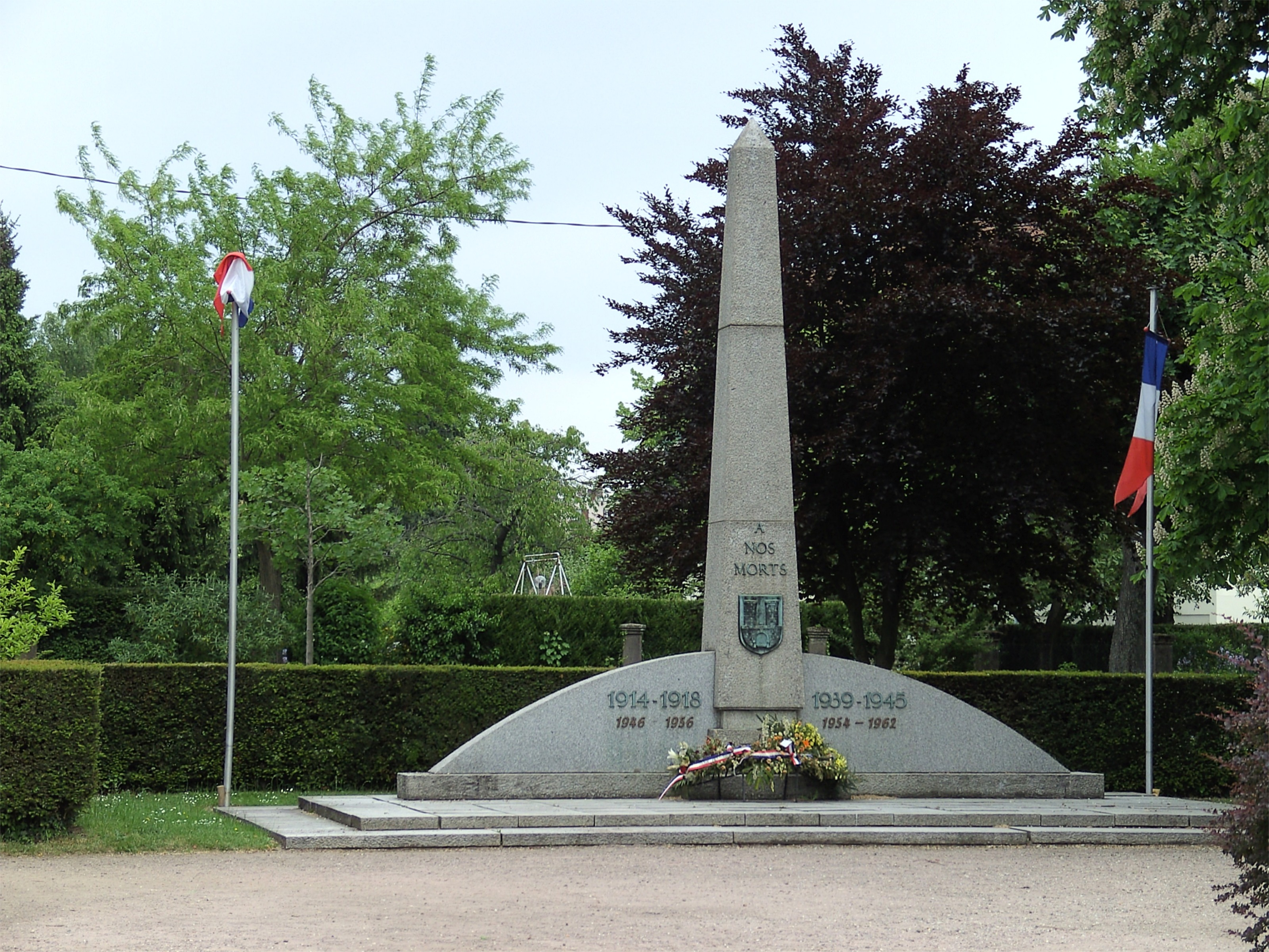 War Memorial in Wissembourg.